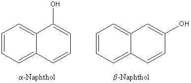 Naphthole